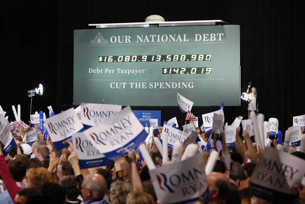 Mitt Romney in Toledo, Ohio.